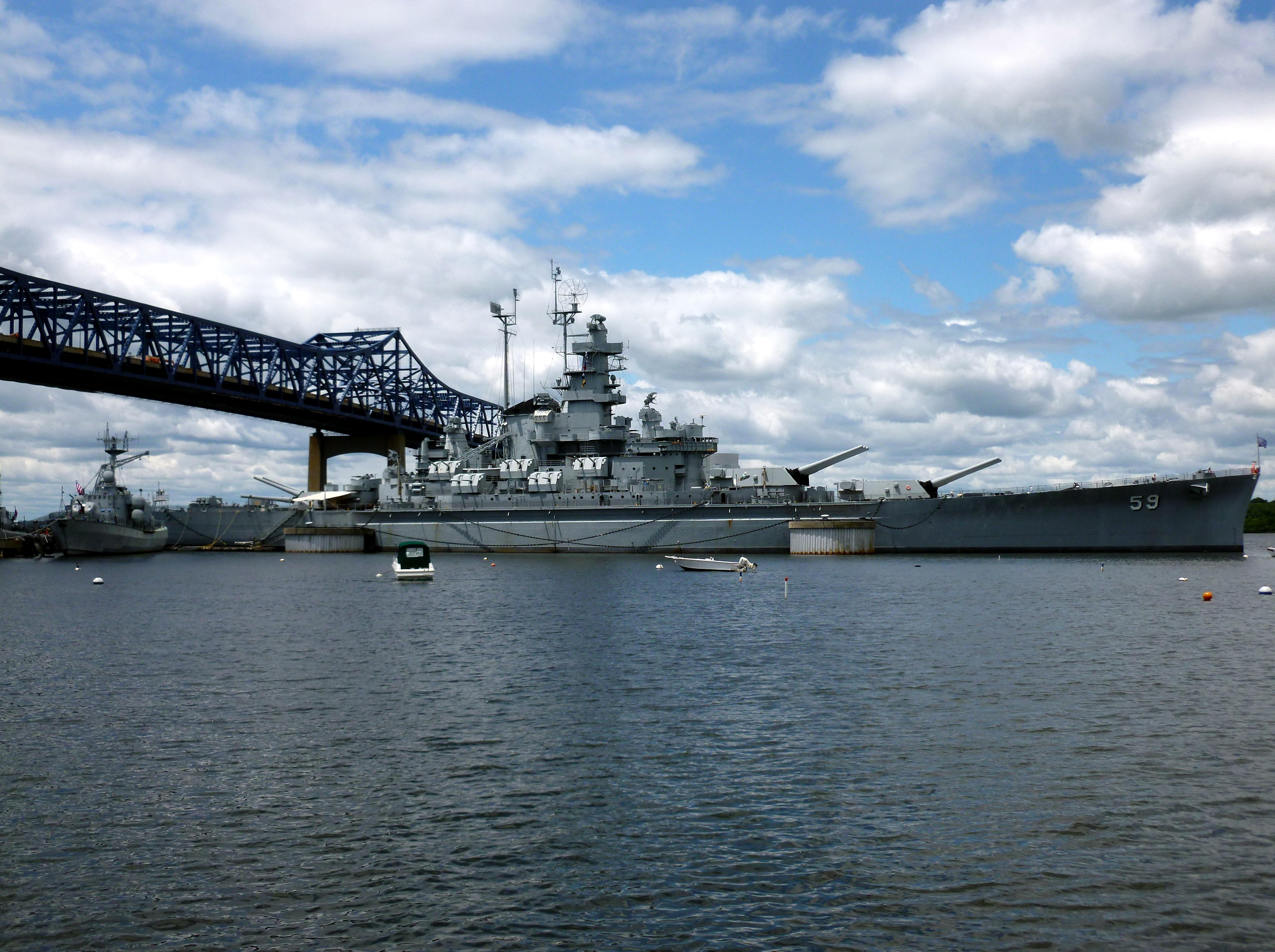 Battleship Massachusetts in Battleship Cove, Fall River, MA